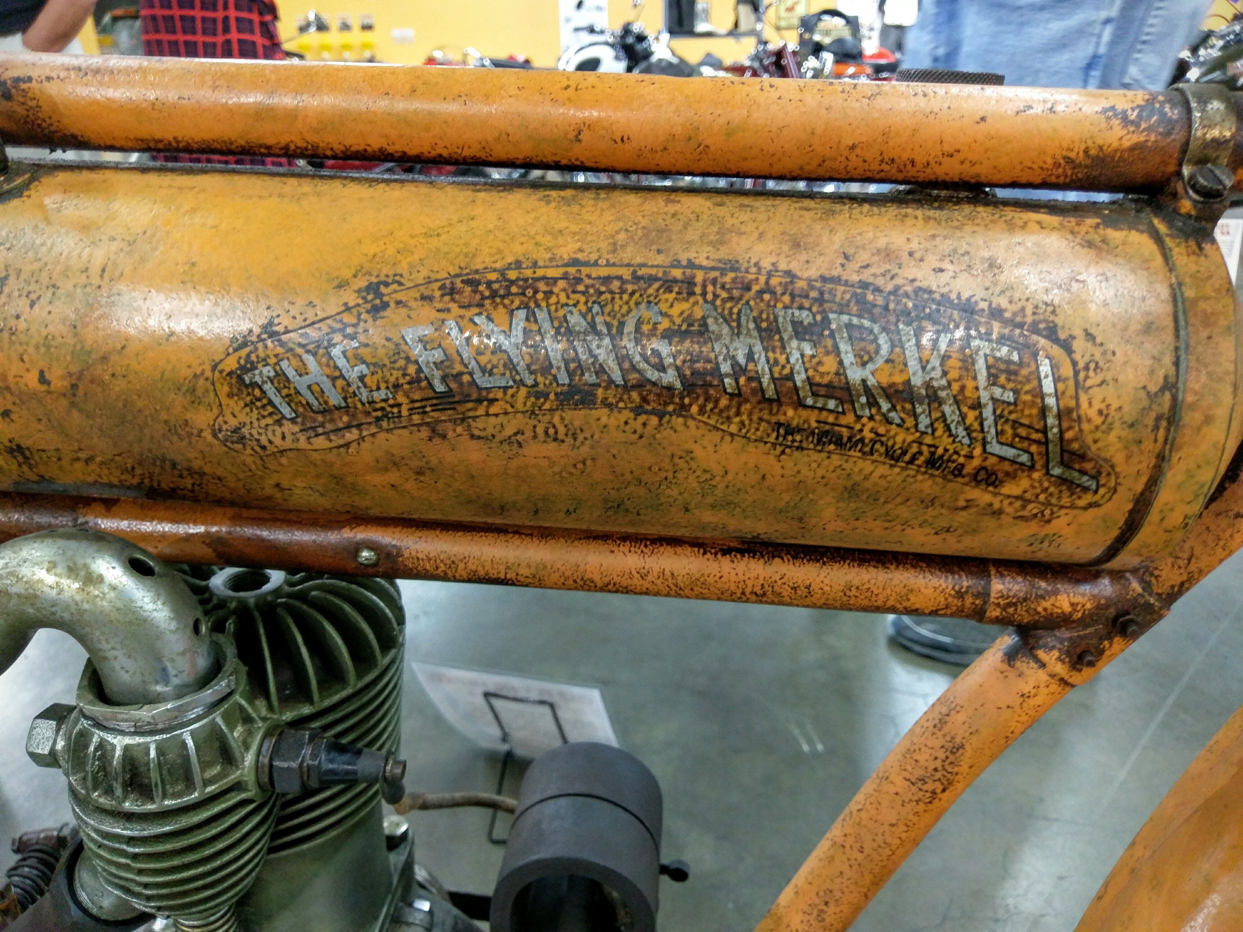 Gas tank emblem on 1912 Flying Merkel on display at the California Automobile Museum. Photo by Jim Heaphy.